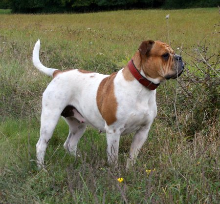 UKC Olde English Bulldogge Female